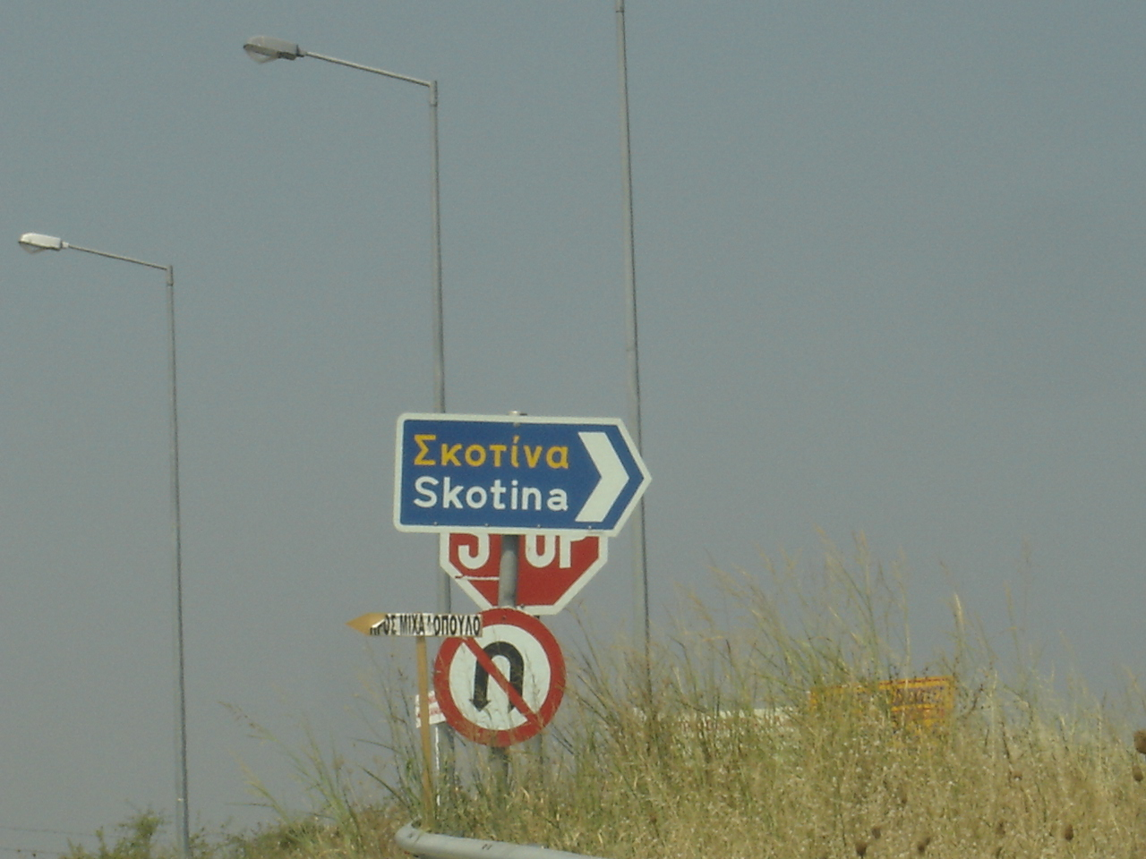 A sign showing the route to Skotina.